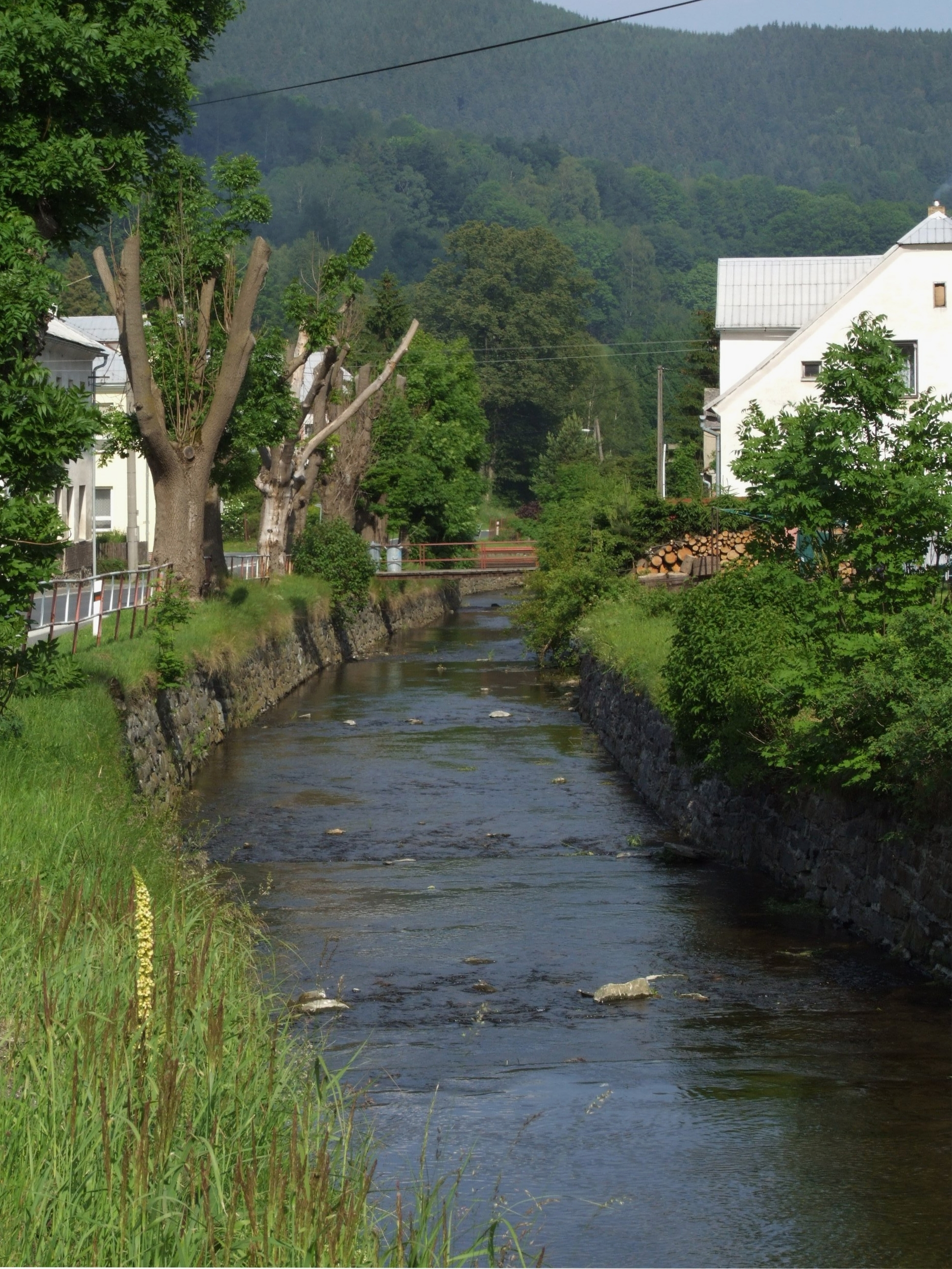 River Opavice (Goldoppa) in Heřmanovice (Hermannstadt)